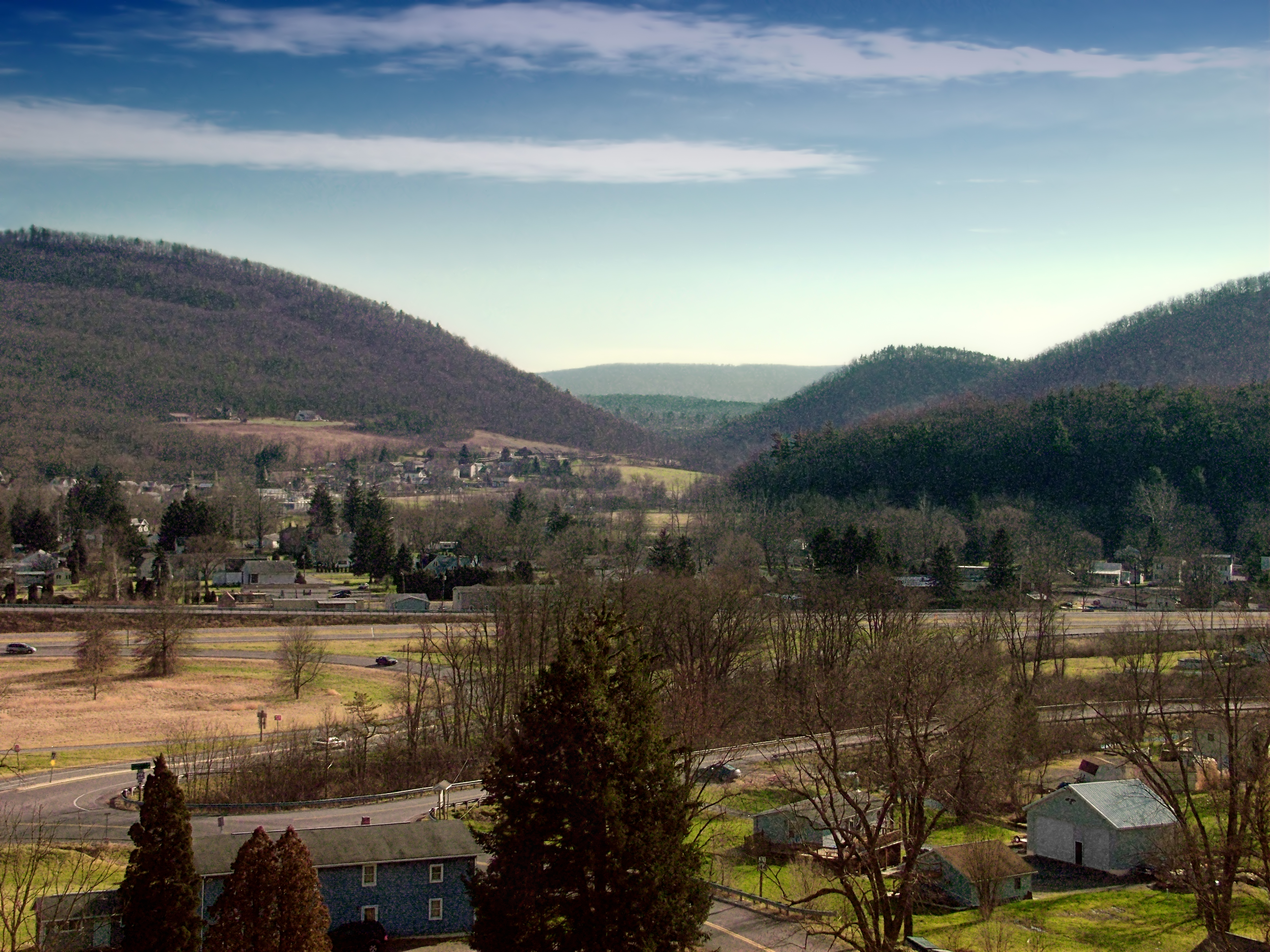 View south from the Trcziyulny Cemetery, Centre County. Visible here are the town of Milesburg and the interchange of PA Routes 144 and 150. Bald Eagle Mountain lies just beyond the town; Nittany Mountain is visible in the far distance.